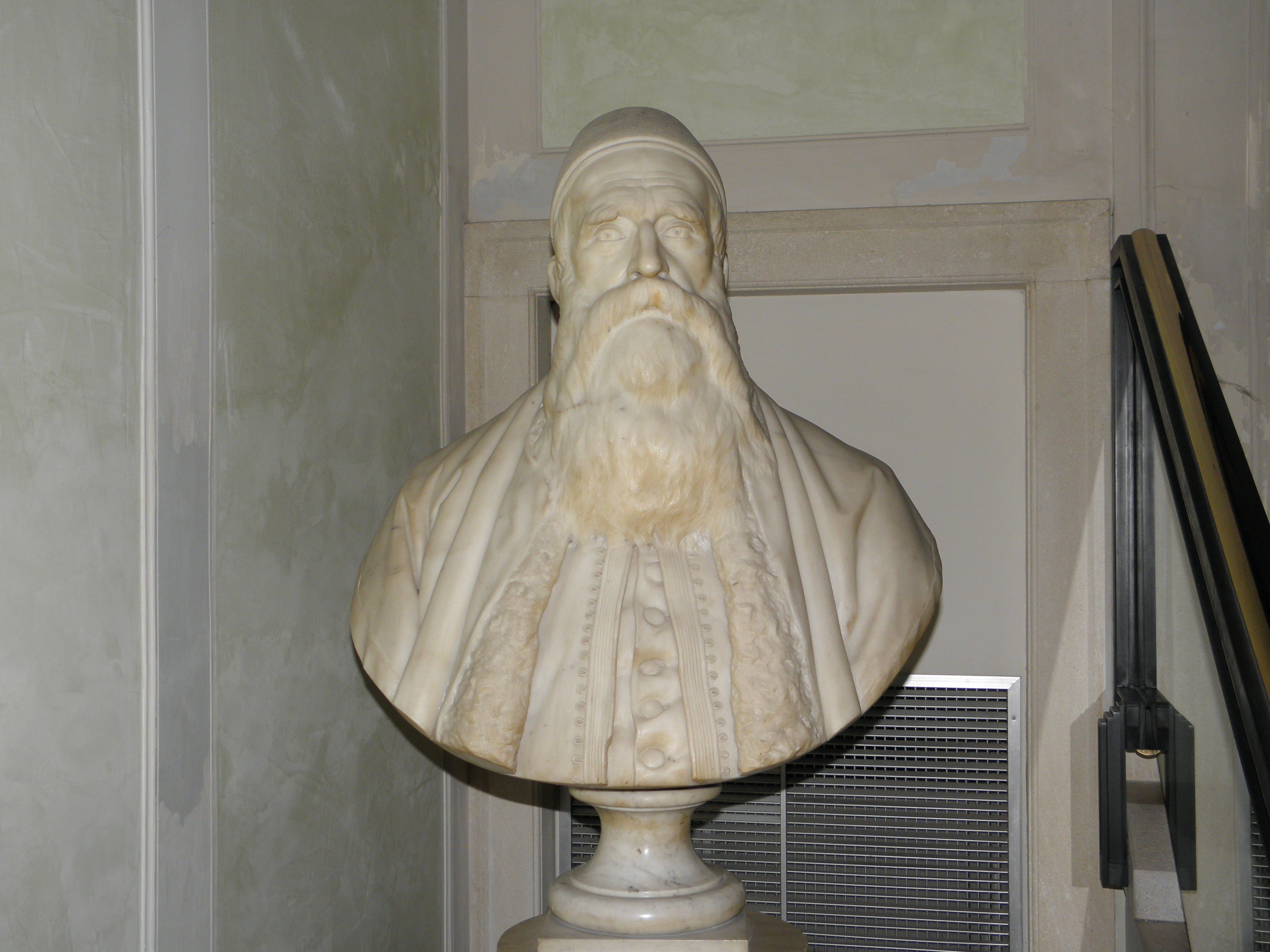 Giovanni Miani bust, italian explorer, in Accademia dei Concordi, Rovigo.